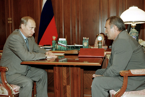 THE KREMLIN, MOSCOW. Vladimir Putin met with Aslanbek Aslakhanov, a Chechen representative in the State Duma.